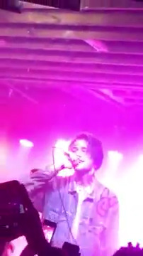 Lil Peep live in Los Angeles, 05.10.17